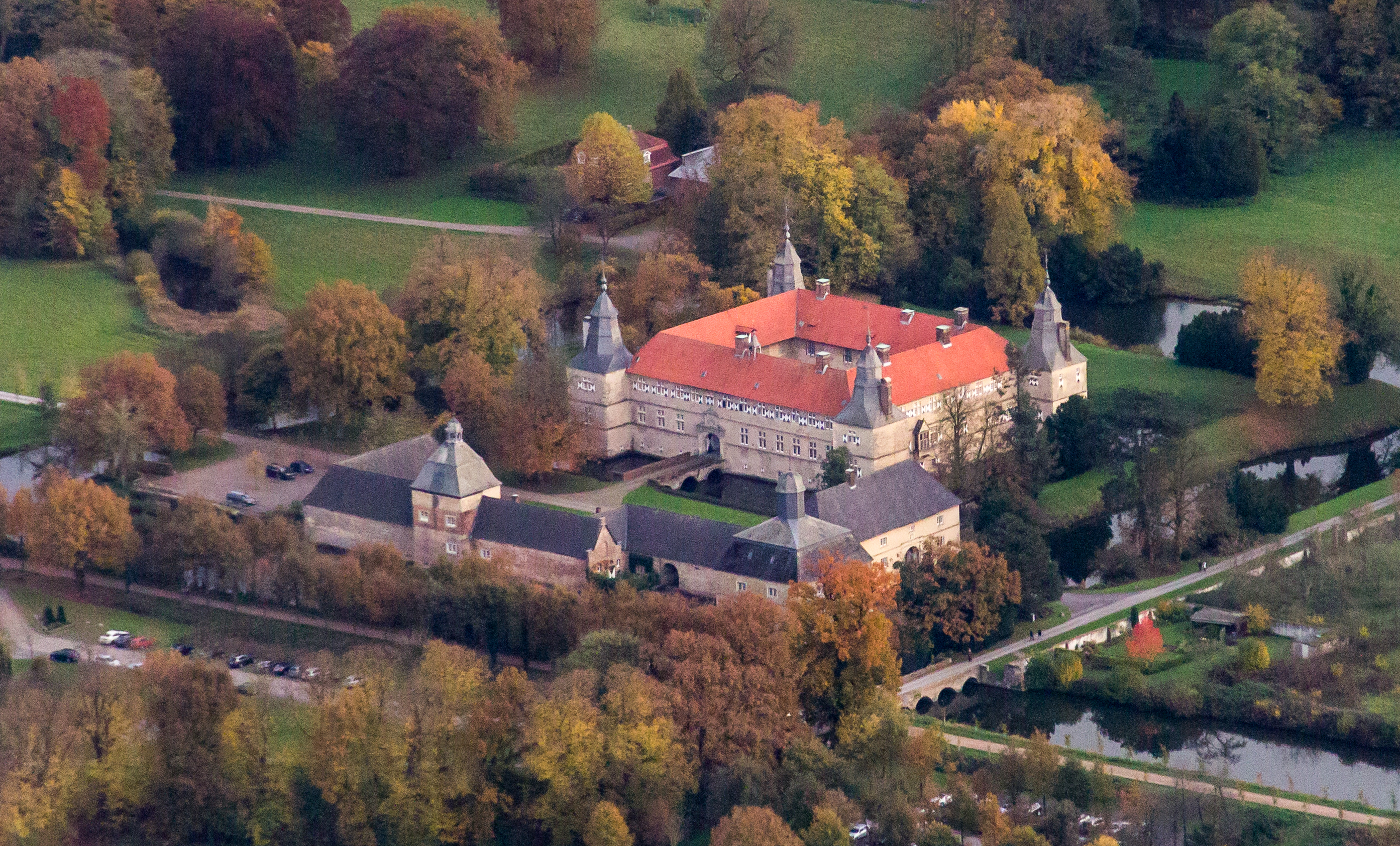 Schloss Westerwinkel, Ascheberg, North Rhine-Westphalia, Germany